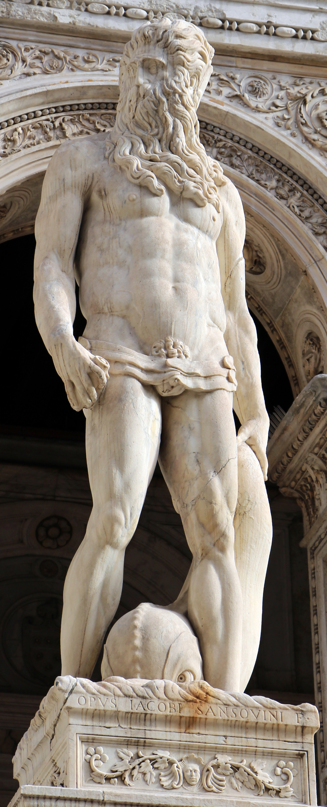 Courtyard of the Doge's Palace (Venice)